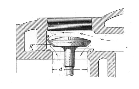 Inlet valve (Army Service Corps Training, Mechanical Transport, 1911).jpg